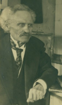 Moshe Murro 1957